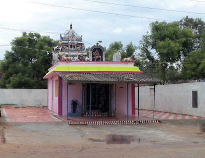 Kalichchiyamman Kovil is placed center of the pandikkudi village.